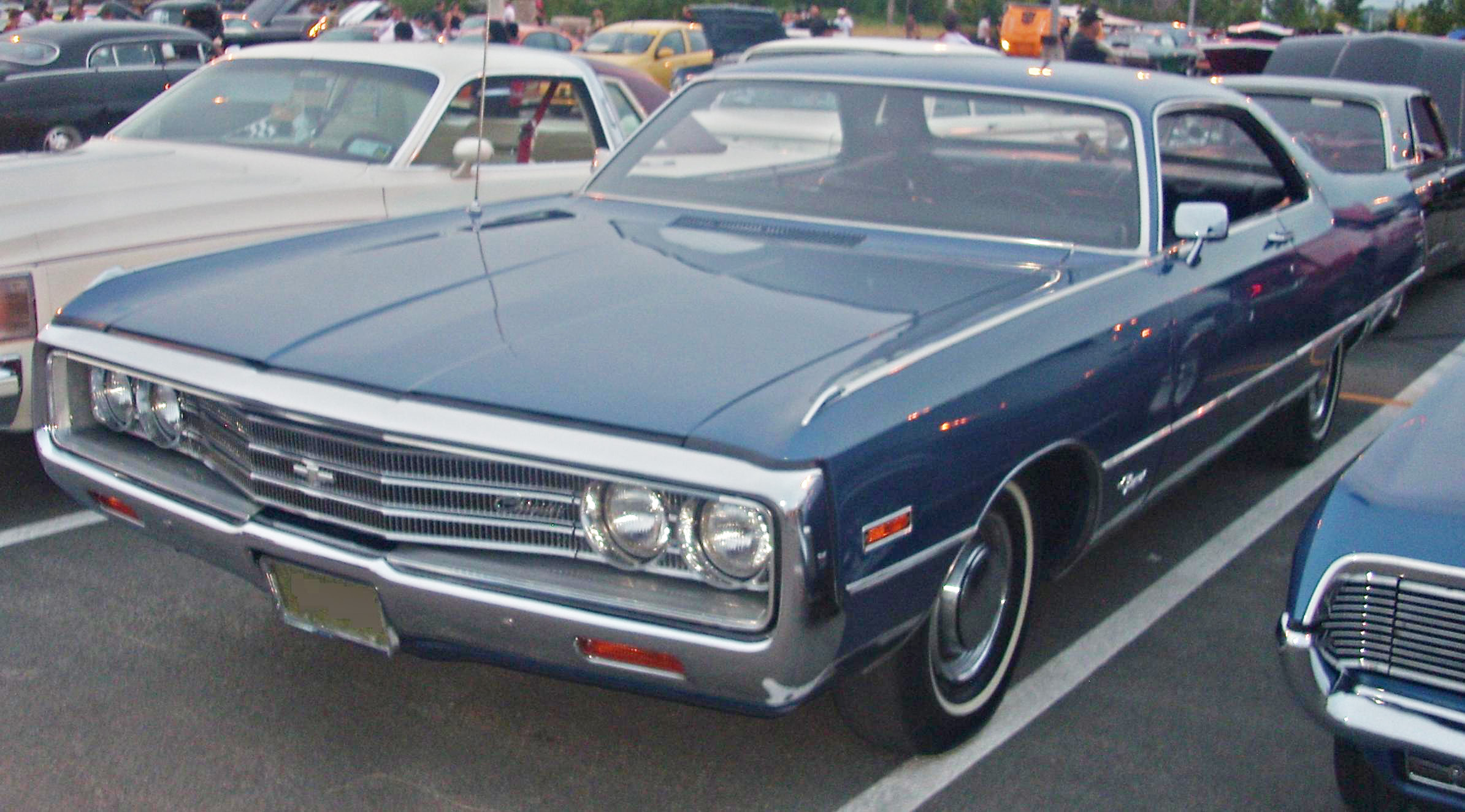 1971 Chrysler Newport photographed in Laval, Quebec, Canada at Centropolis Laval.